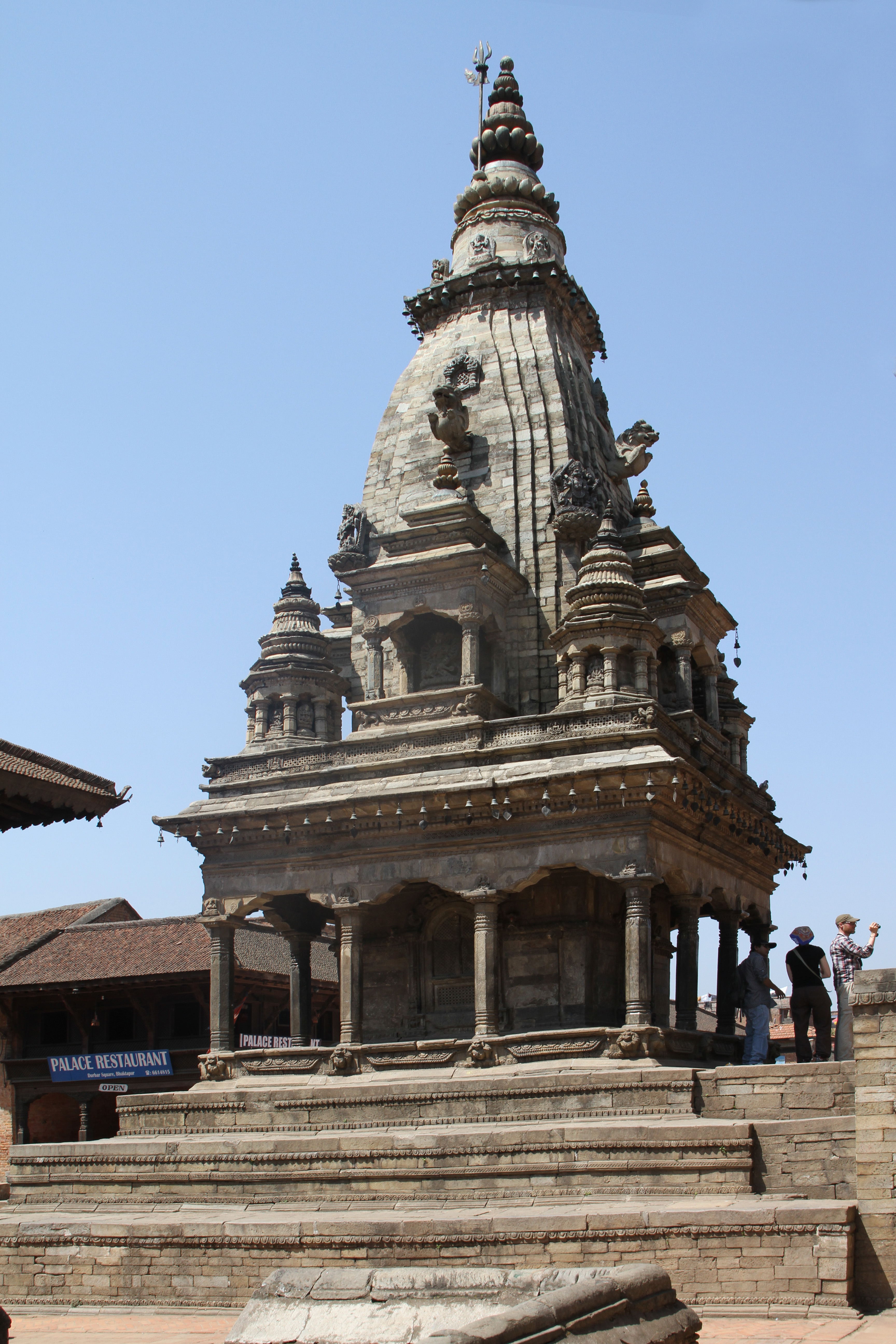 Bhaktapur Durbar Square